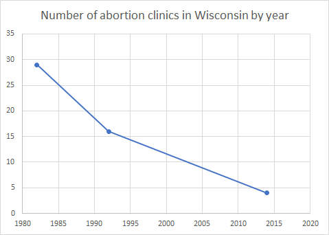 Number of abortion clinics in Wisconsin by year. Data is from articles linked at